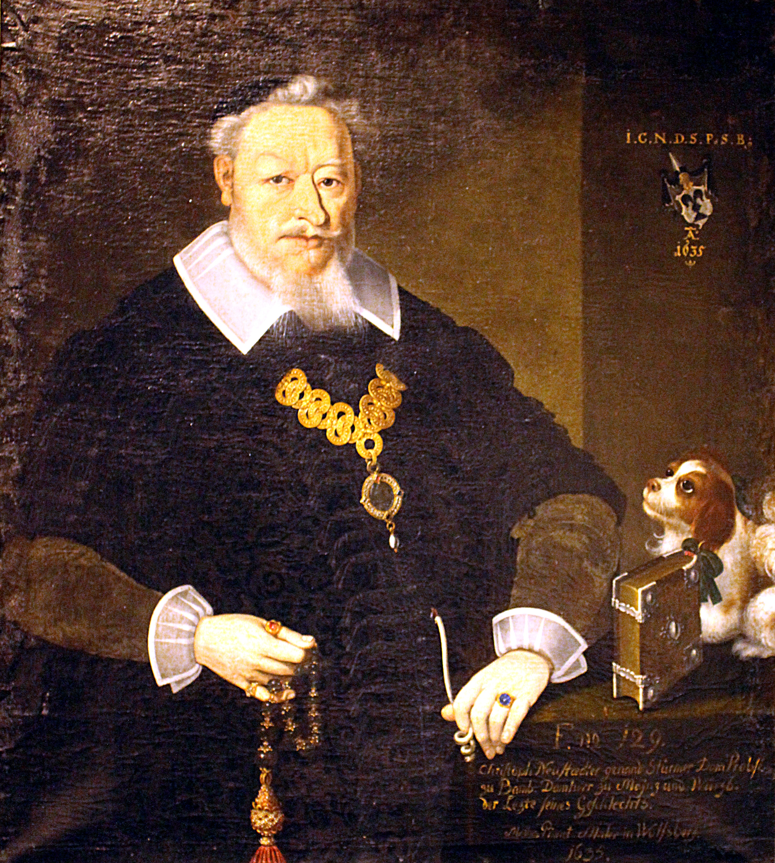 Würzburg, Mainfränkisches Museum, Matthäus Pinnet, portrait Johann Christoph Neustetter